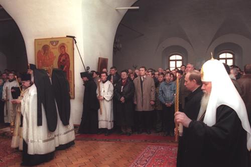 NOVOSPASSKY MONASTERY, MOSCOW. President Vladimir Putin at a commemoration service for troops of the 104th Airborne Regiment, Pskov Airborne Division, who were killed in a military operation in Chechnya.